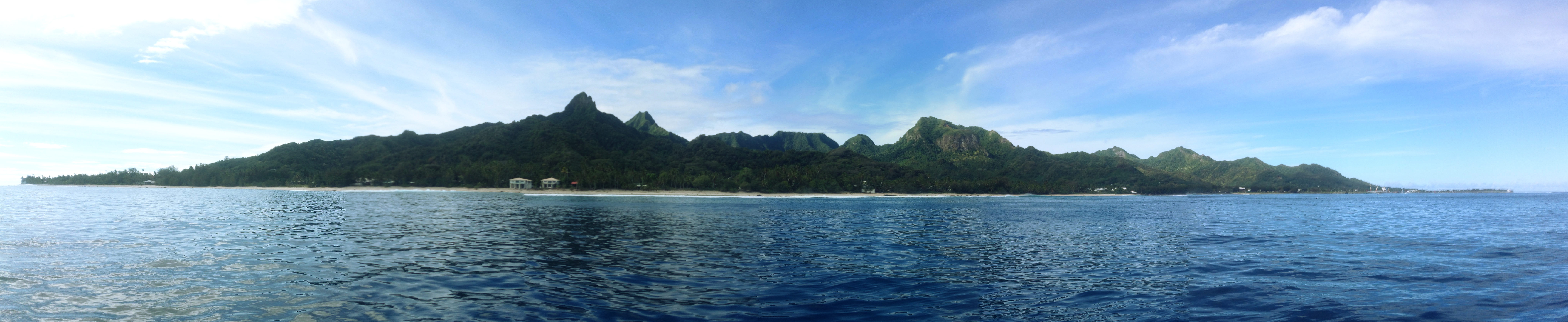 Panorama Rarotonga, form the noth site taken.